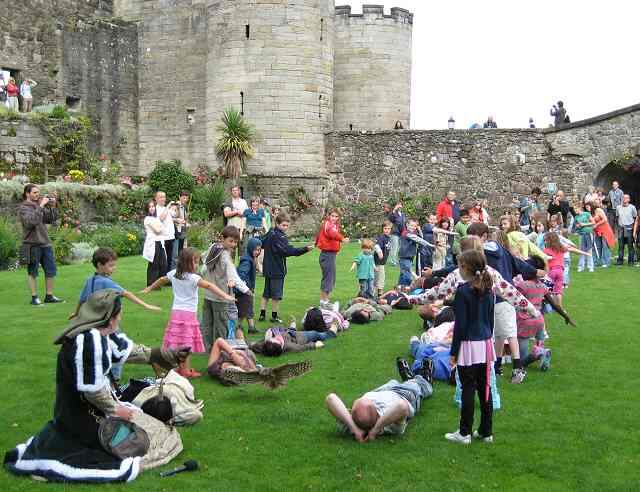 Bird display Following a display of falconry at Stirling Castle an owl was flown over the heads of those watching. First it was the turn of the children to lie on the grass, then the positions were reversed. Their parents lay still like lizards on a forest floor while the children stretched out their arms like tree branches to keep the owl flying low.